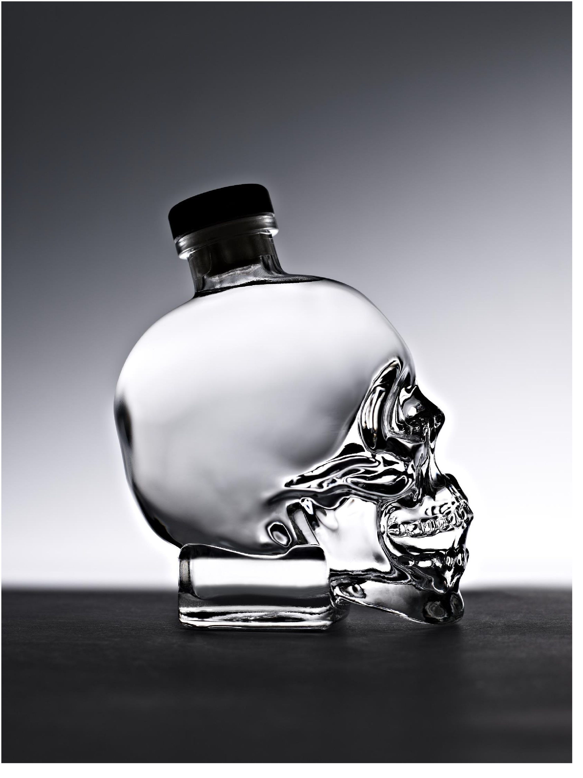 Crystal Head Vodka